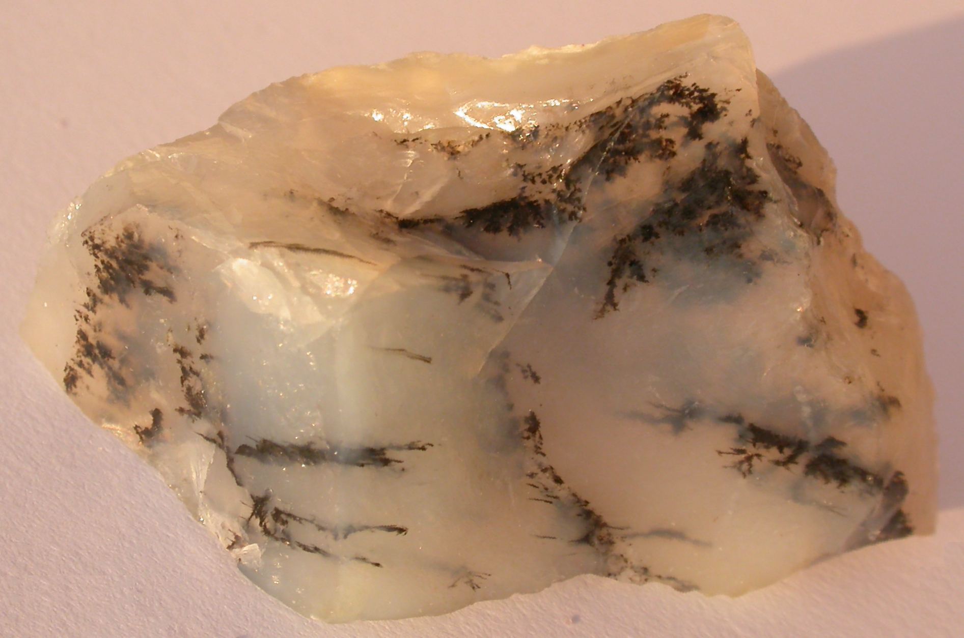 Moss-Opal from Madagaskar